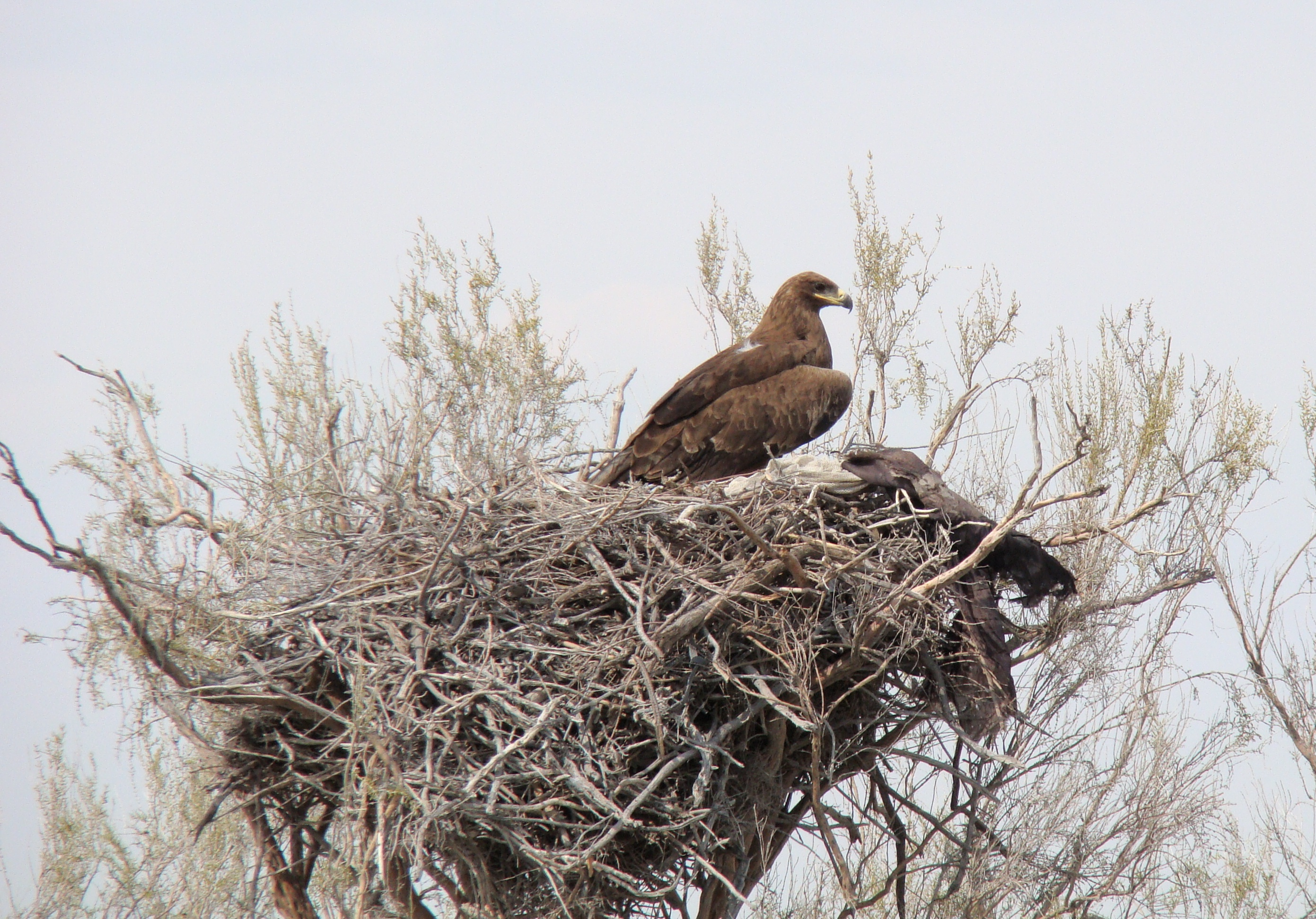 Steppe Eagle Aquila nipalensis in the nest. 11 km to south from Baikonur-town, Kazakhstan